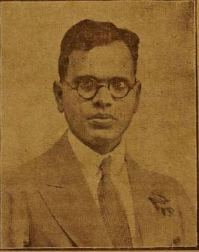 K. Ramalingam (1899-1986), Tamil scholar, writer